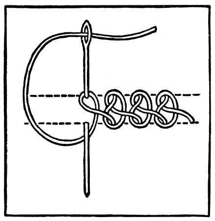 Braid stitch